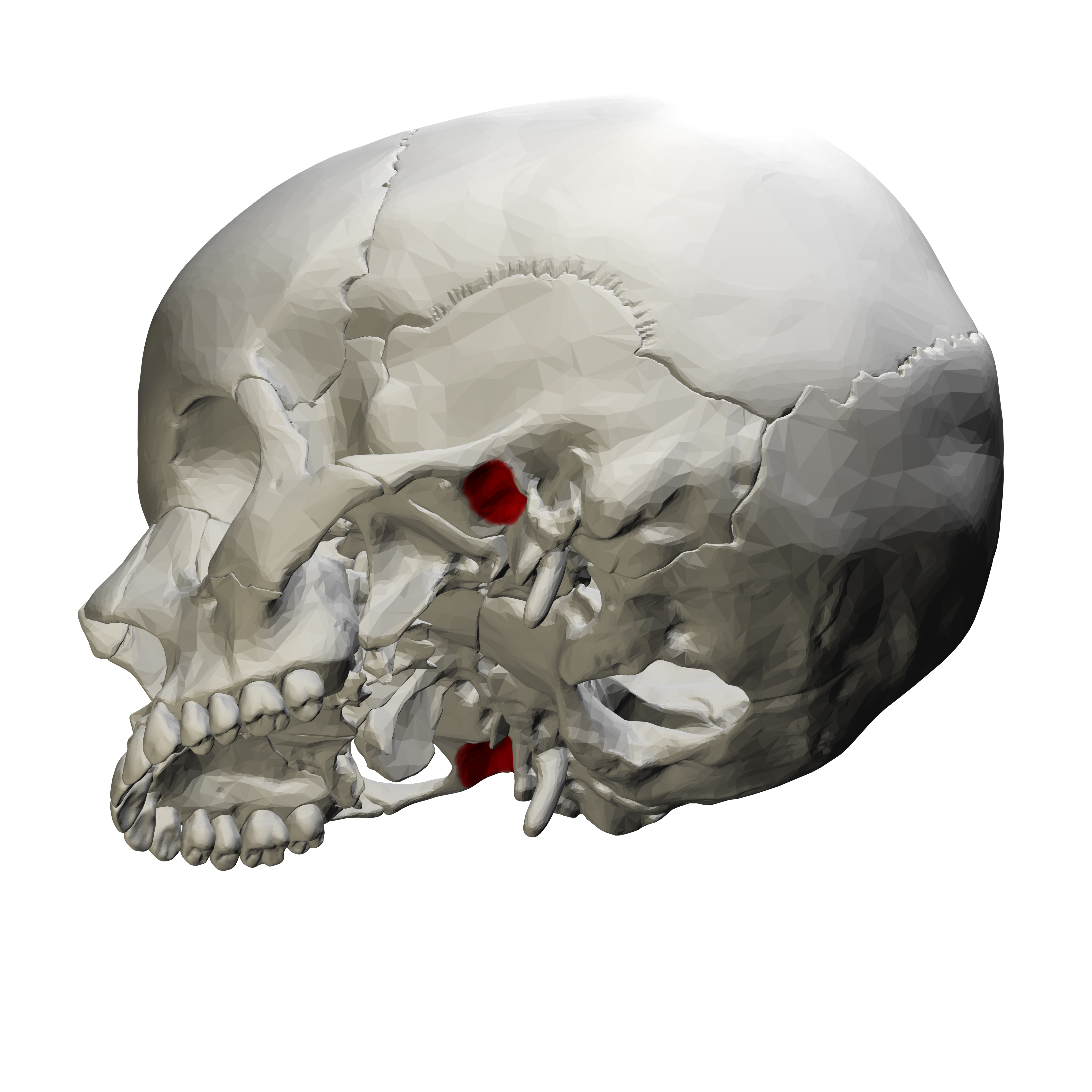 Mandibular fossa (shown in red)